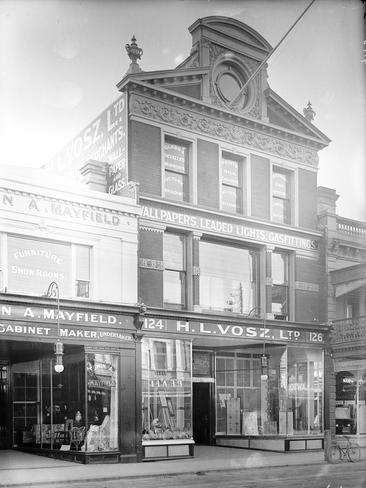 Three-storey building on Rundle Street, Adelaide, Showroom for H. L. Vosz, glass supplier